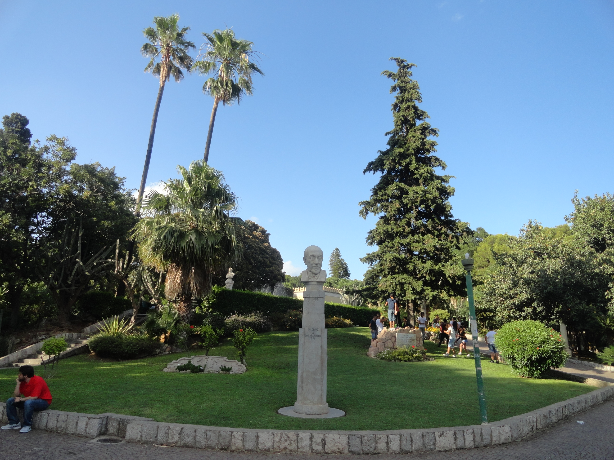 Giardino Inglese or the English garden in Palermo, Sicily, Italy. The view is from the entrance of the park at Via Della Liberta side. By the founder of